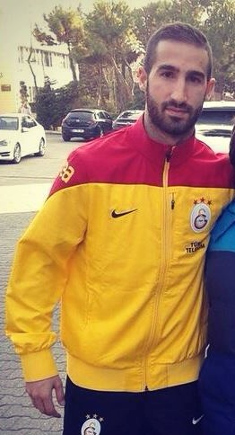 Umutgündoğan fotografımız